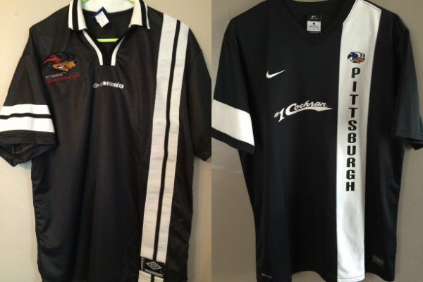 Two previous kits of the Pittsburgh Riverhounds professional soccer team